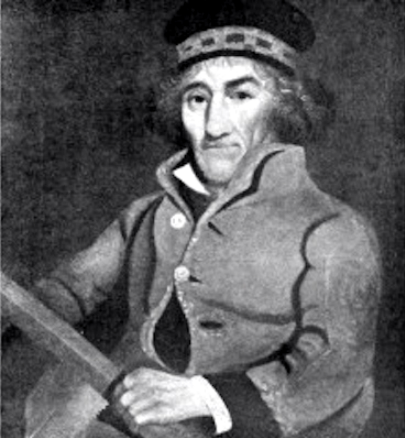 Image of the furniture maker Duncan Phyfe